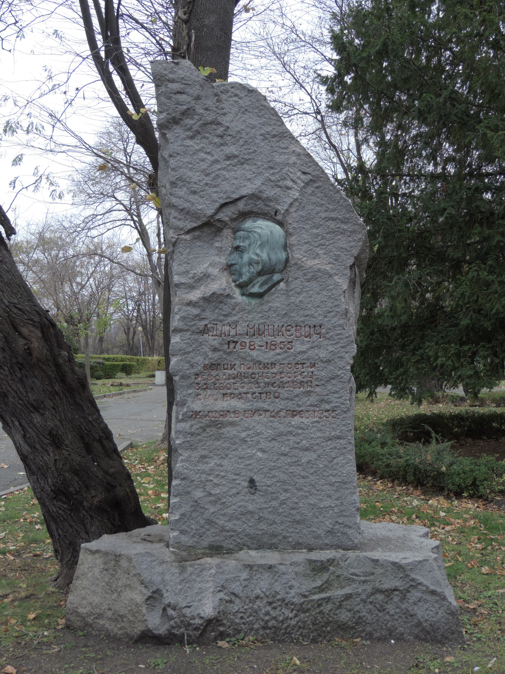 Monument of Adam Mickiewicz in Burgas Sea Garden. The poet used to live in the town in 1855.